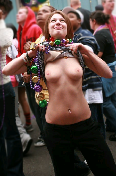 Young woman exposes her breasts on the Mardi Gras in New Orleans. Voted the very best by Zagat.